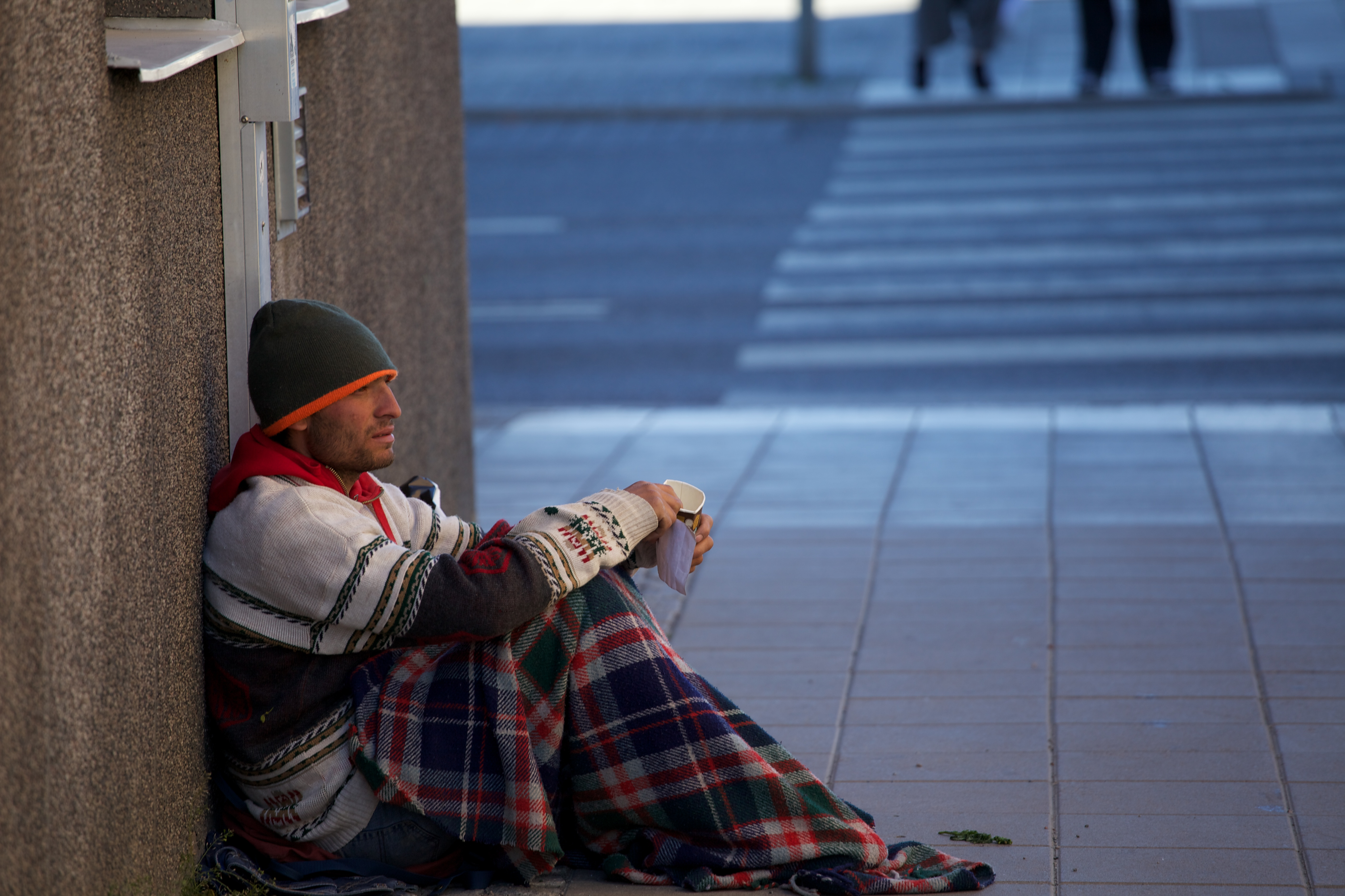 A beggar near Kungsgatan in Uppsala, Sweden.